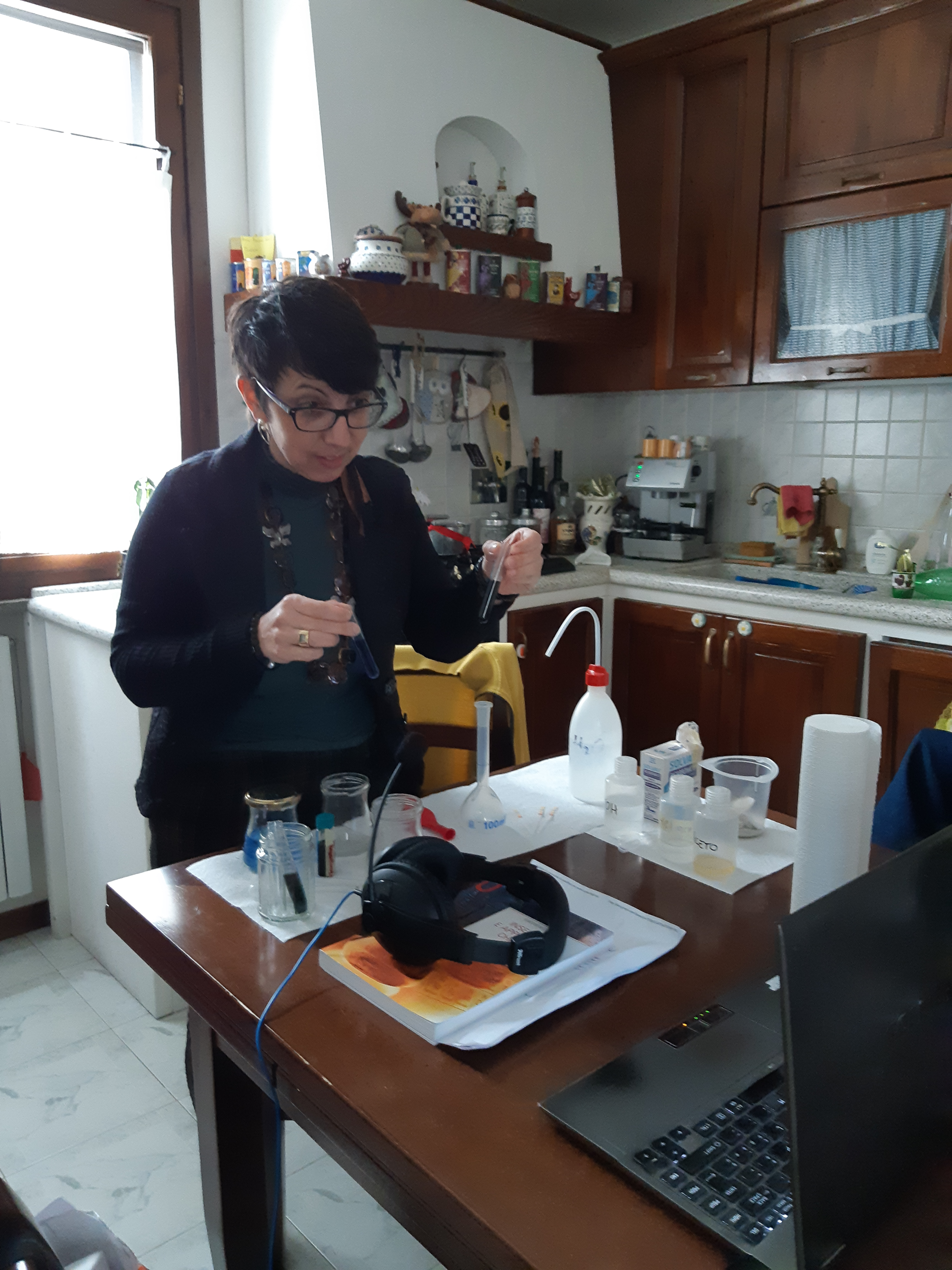 This is a photo of me during a distance lesson for the course of Primary Education Sciences at University of Pisa (Italy) (2019-2020) in the period of pandemic Covid-19. The lesson was about chemical reaction for the primary school: here, I was showing few experiments to my students from my home kitchen.